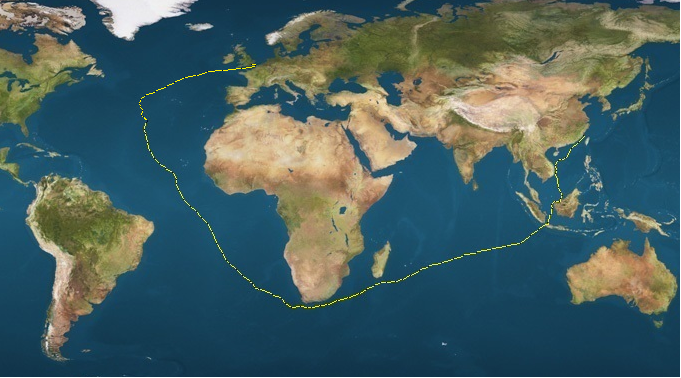 track of clipper ship Ariel in the 1866 Tea Race